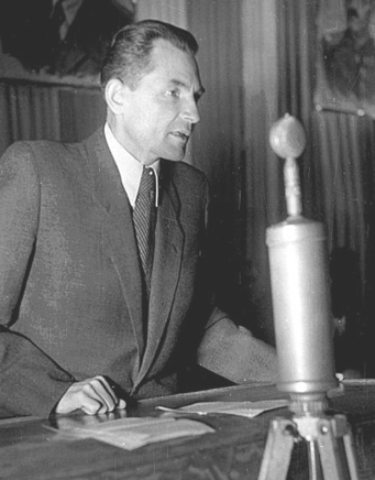 Stanisław Radkiewicz (1907-1987) head of the Polish communist secret police (Urząd Bezpieczeństwa or UB) between 1944 and 1954 he was one of the chief organizers of Stalinist terror in Poland in those years.